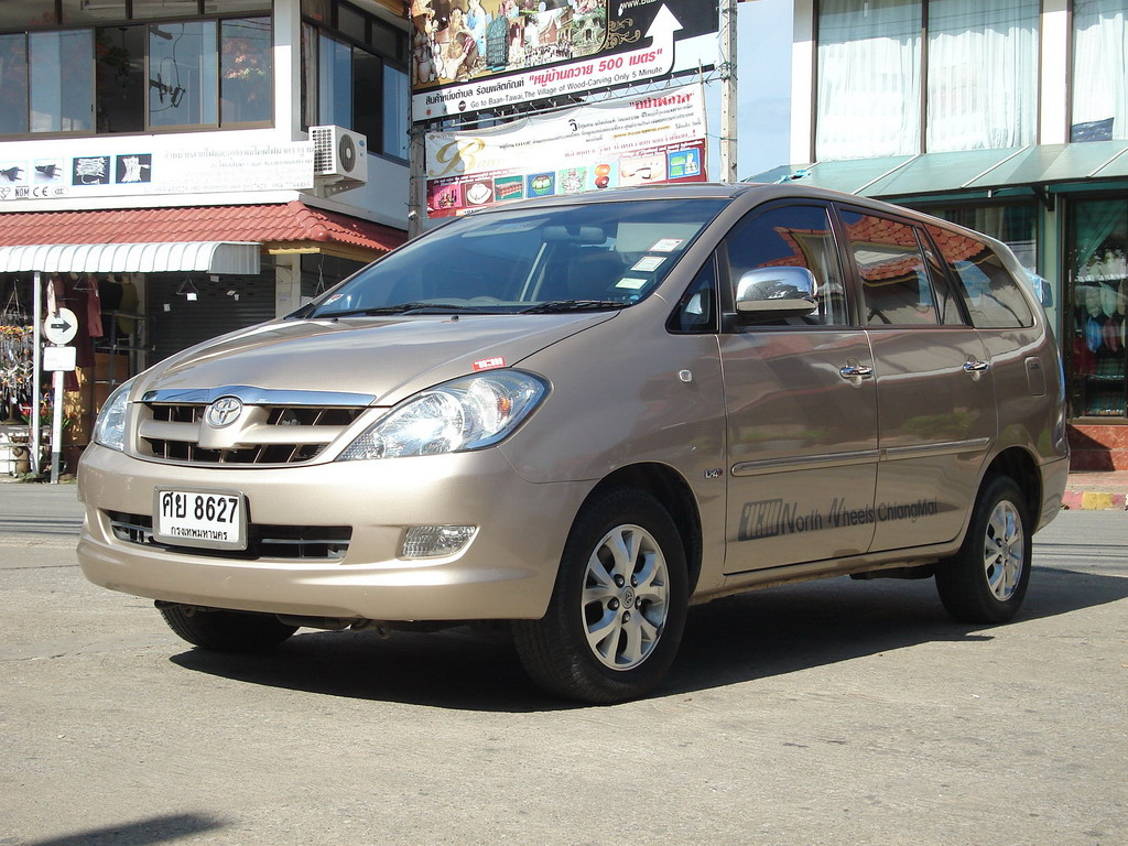 Toyota Innova, found in Amphoe Hang Dong, Chiang Mai, Thailand